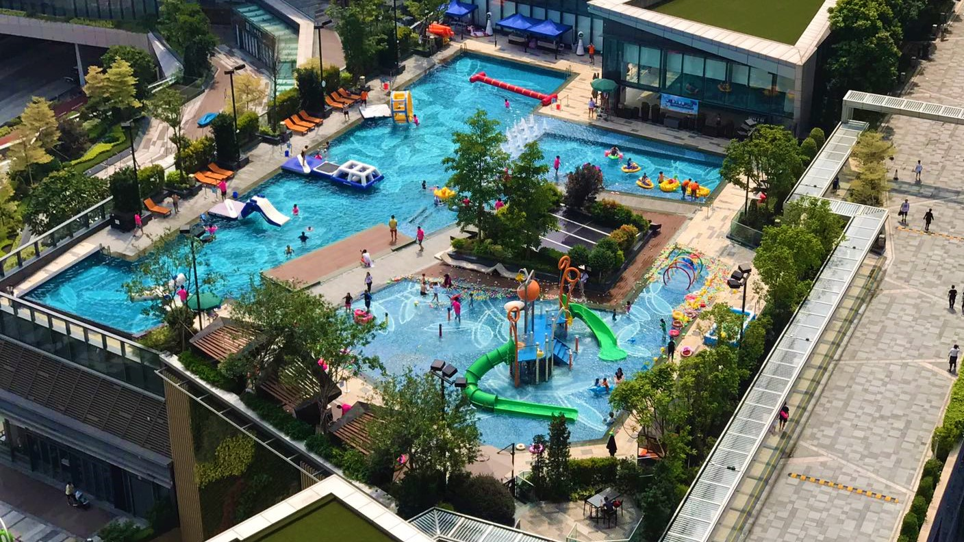 Grand yoho pool